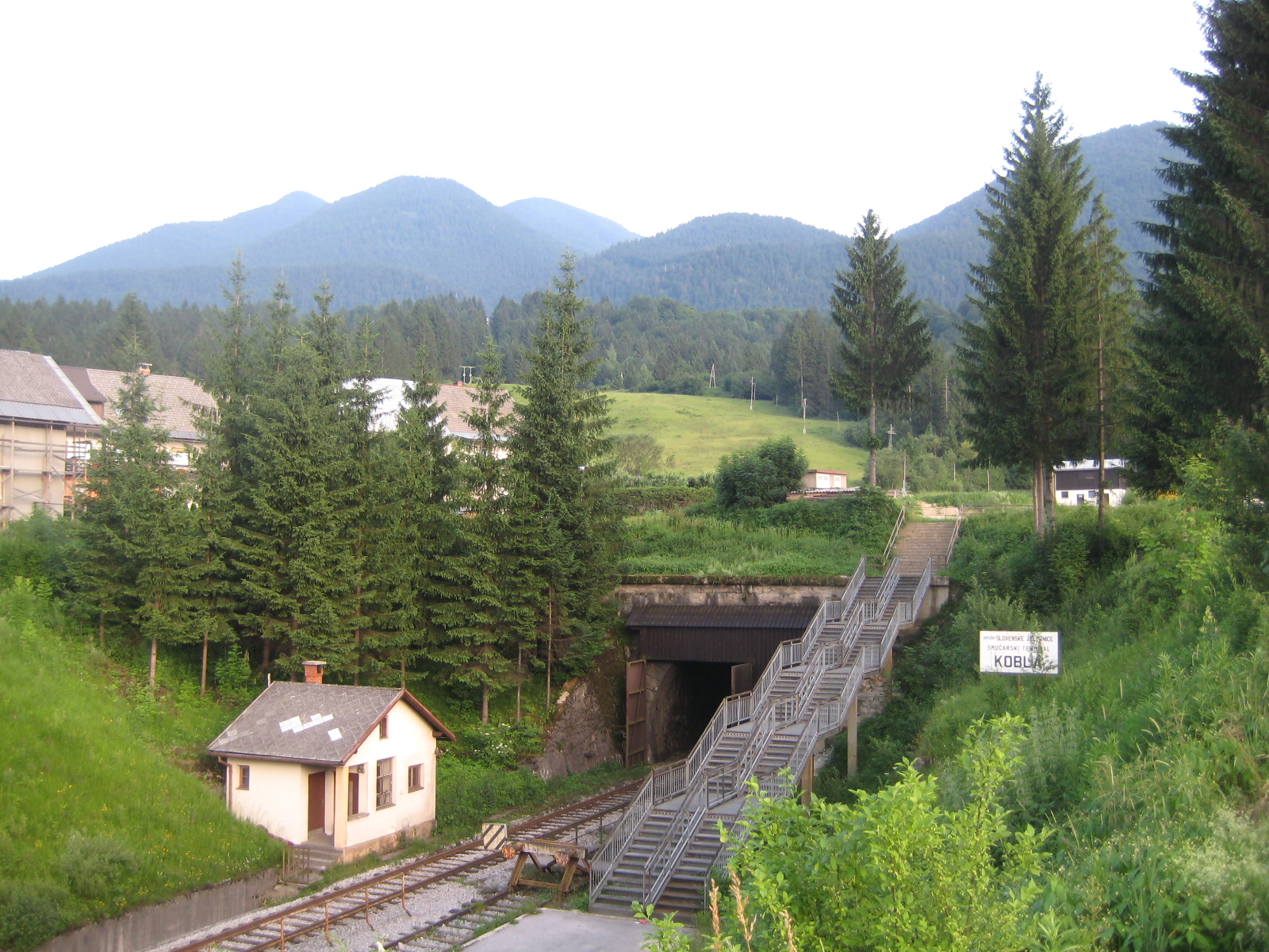 Bohinj railway tunnel (entrance-Bohinjska Bistrica)